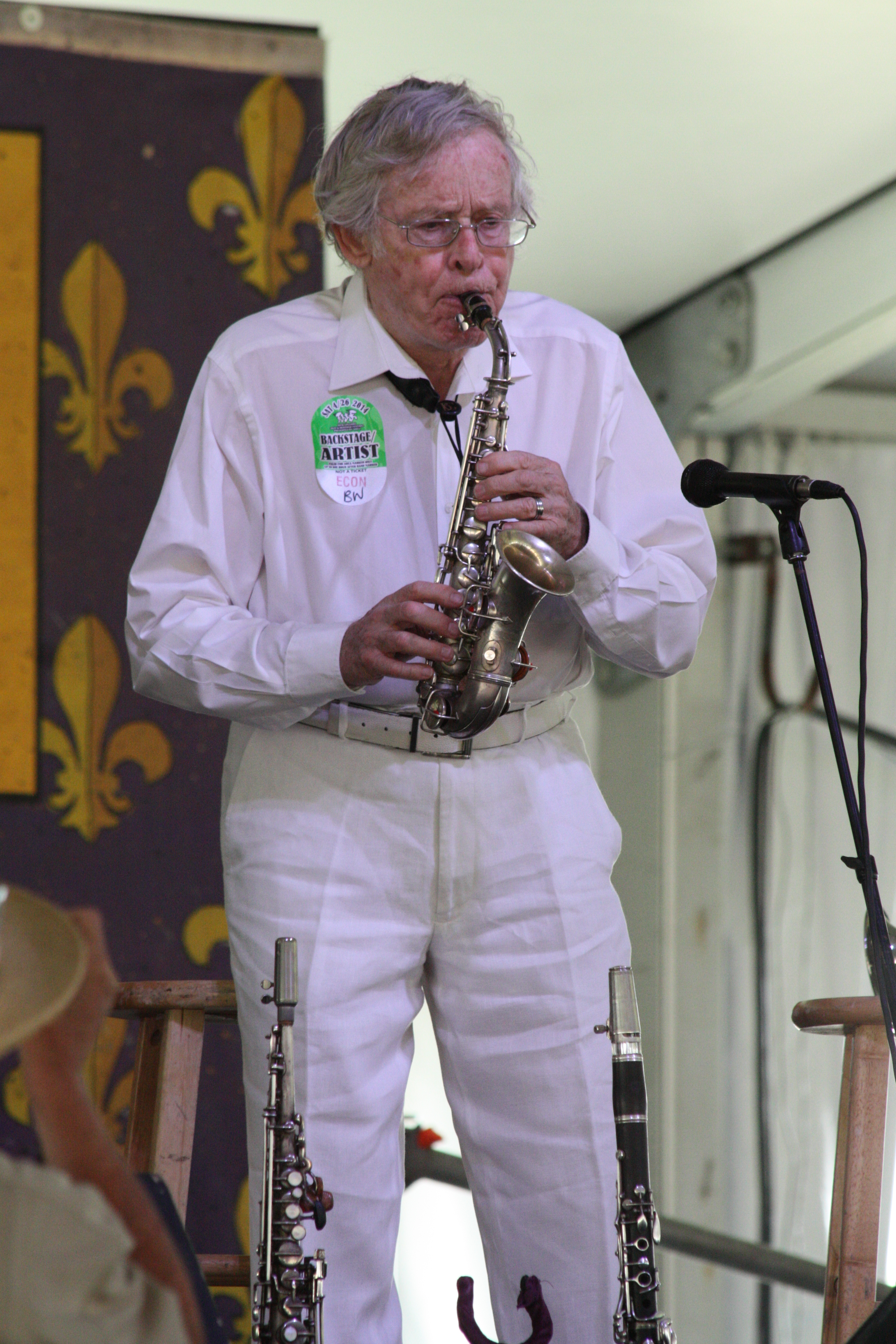 New Orleans Jazz Fest 2014